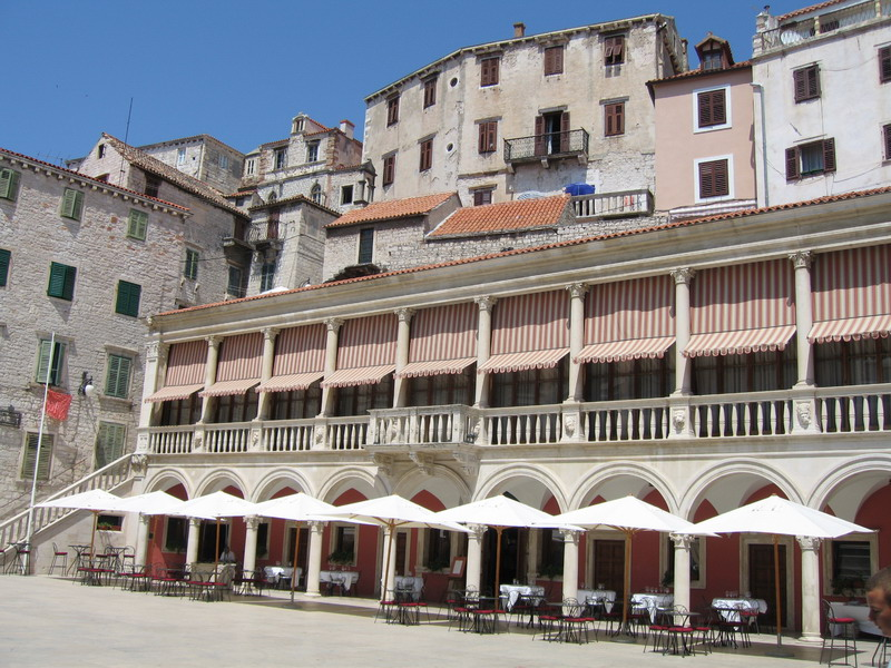 City hall